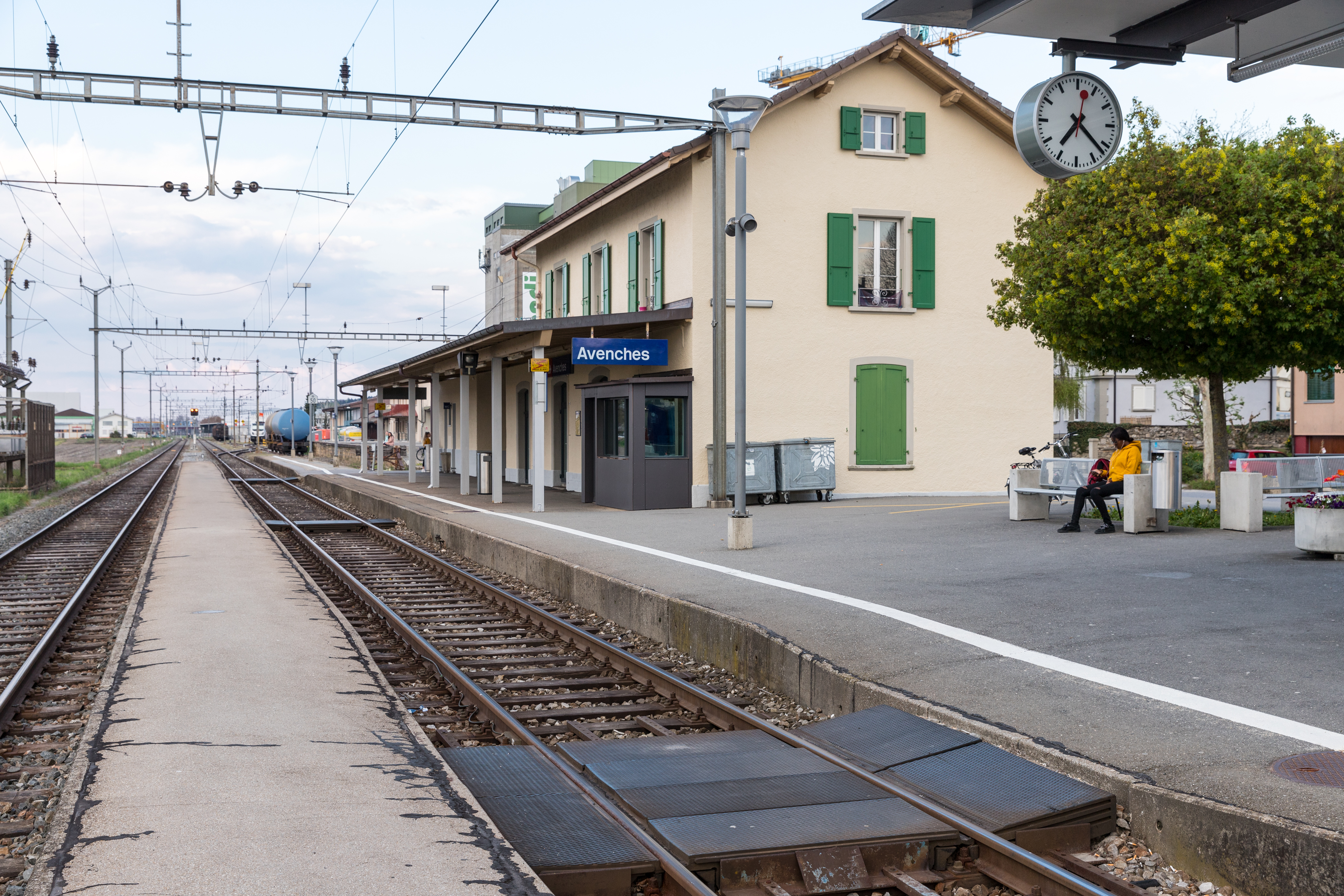 Avenches railway station, canton of Vaud, Switzerland.